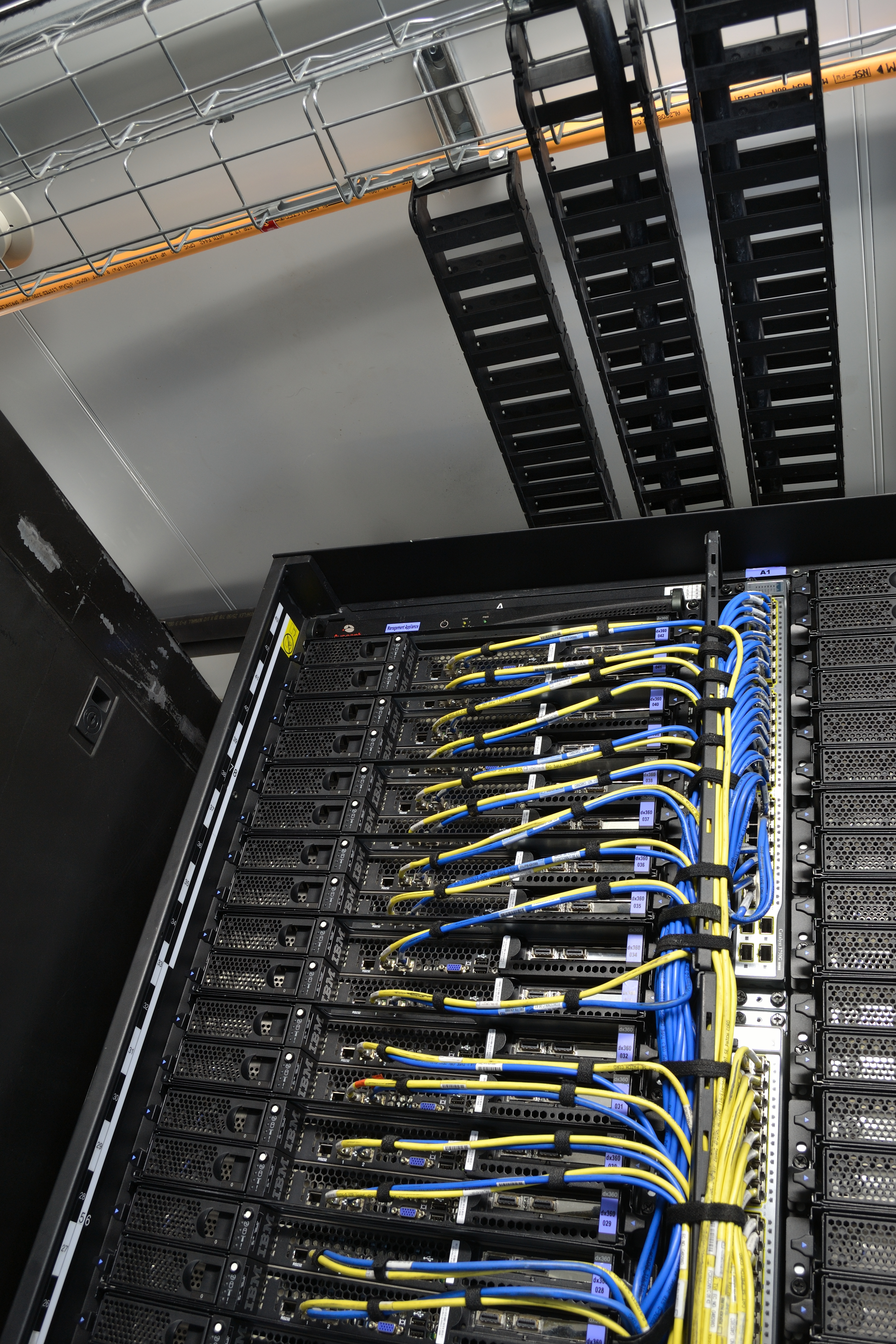 IBM Portable Modular Data Center - power, network cable rails into the server rack (high-density iDataPlex rack).